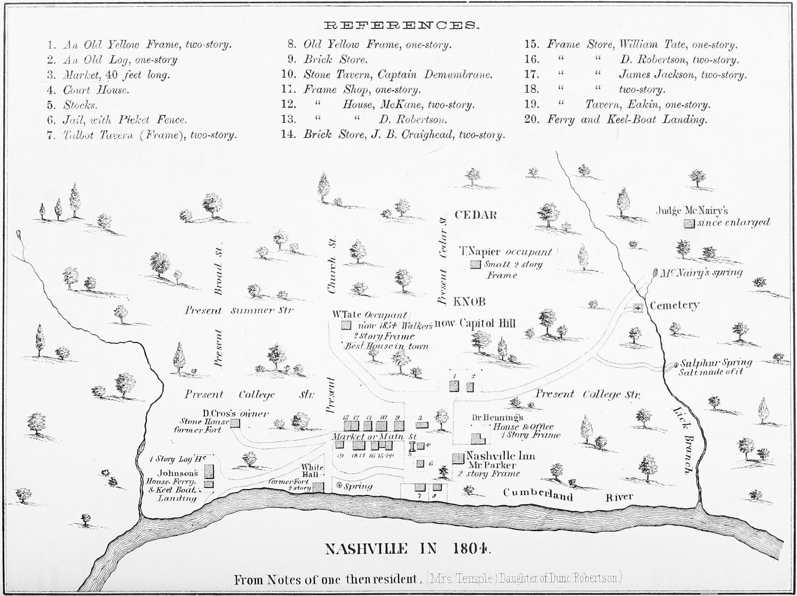 "Nashville in 1804. From notes of one then resident, (Mrs. Temple) Daughter of Dunc. Robertson)" Published in "History of Davidson County, Tennessee, with illustrations and biographical sketches of its prominent men and pioneers," by W. W. Clayton, 1880.